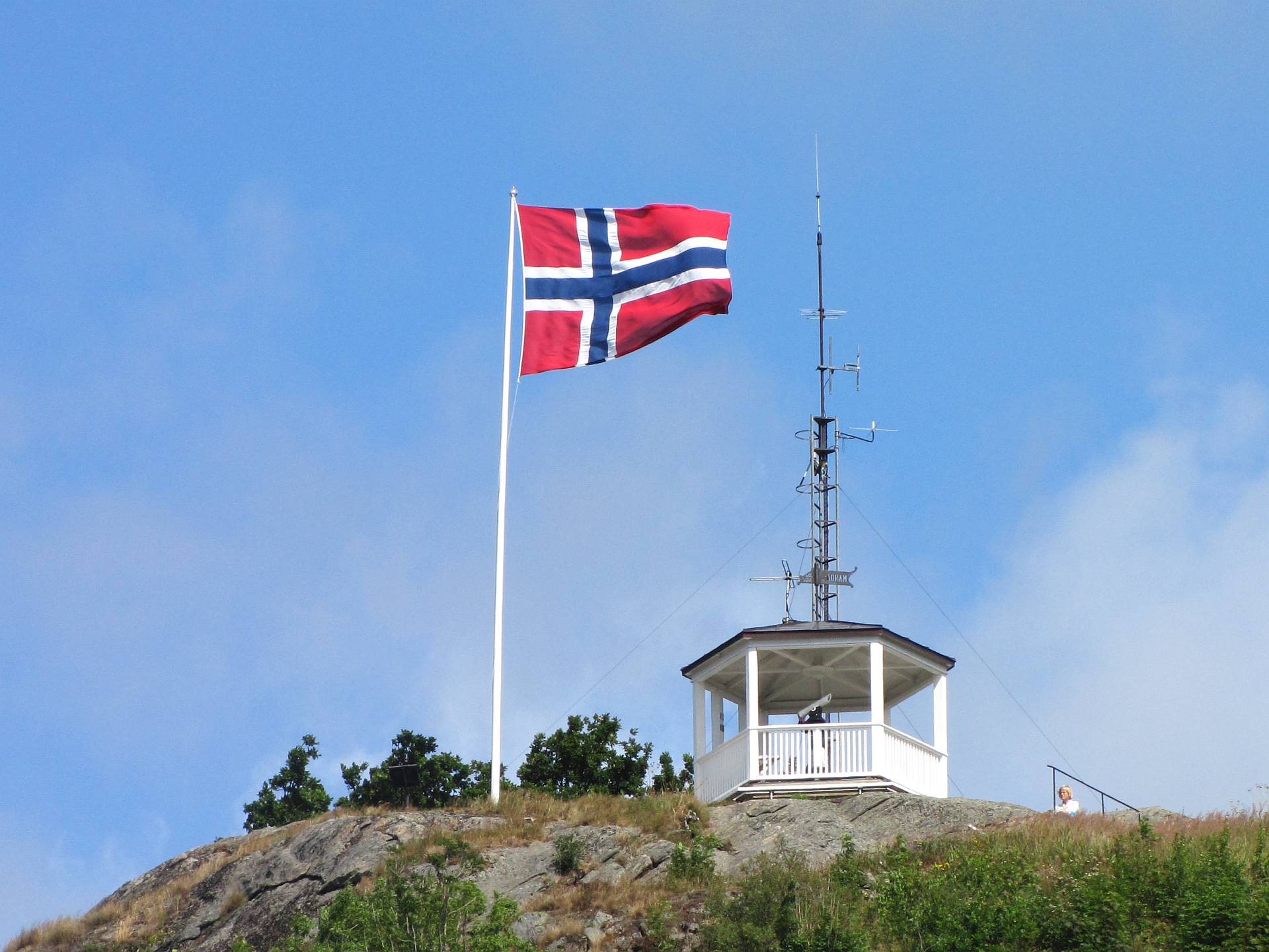 Mandal Viewpoint Uranienborg correct Torjusheia fjellet 62 m over sea level, Vest-Agder Norway Foto Wolfgang Pehlemann IMG_9357